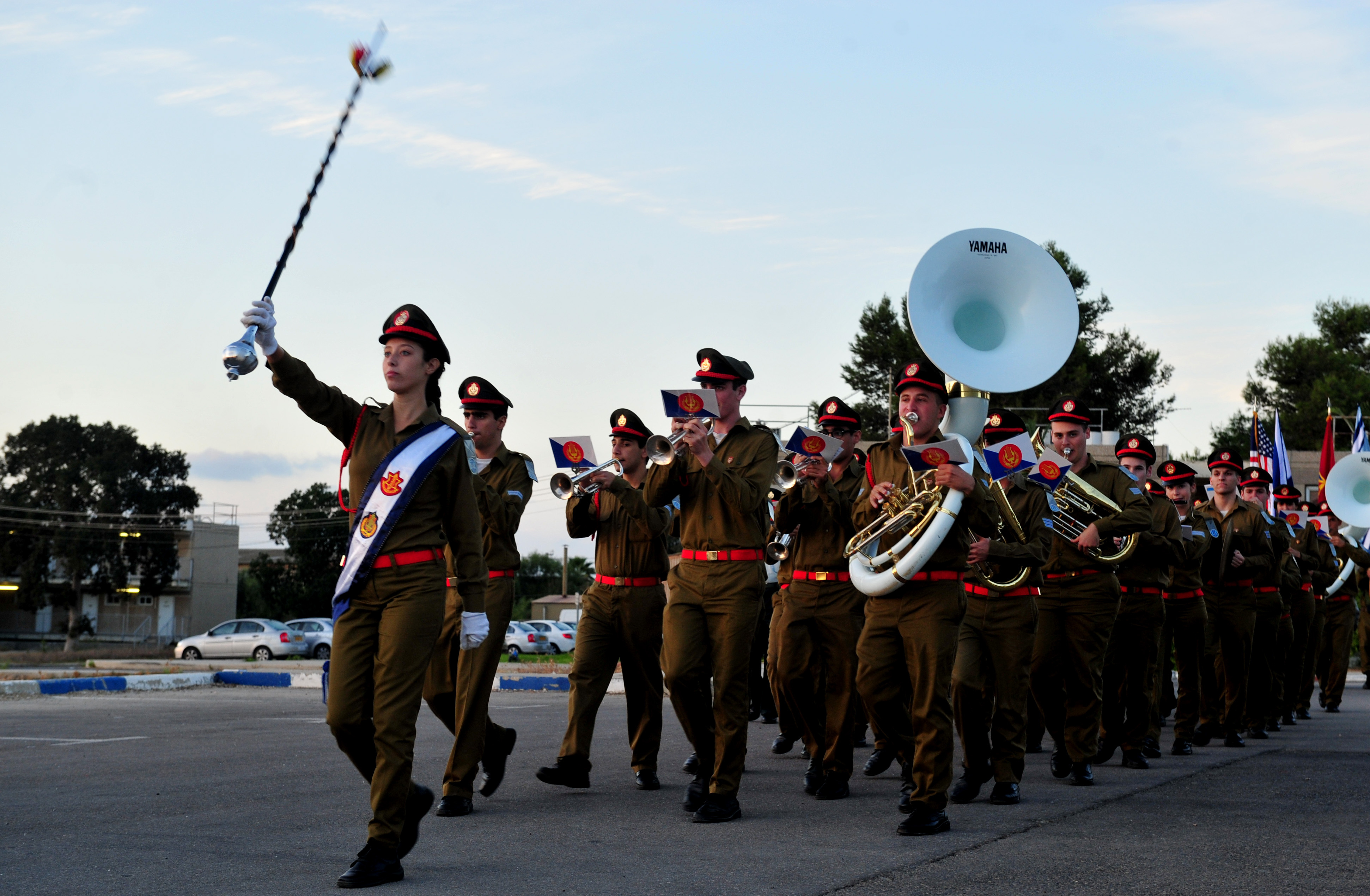 The Israeli Defense Forces band marches during the closing ceremony of Austere Challenge 2012 at Hatzor Israeli Air Force Base, Israel, Nov. 8, 2012. Austere Challenge 2012 was a three-week bilateral exercise designed to increase air defense interoperability between the United States and Israel.